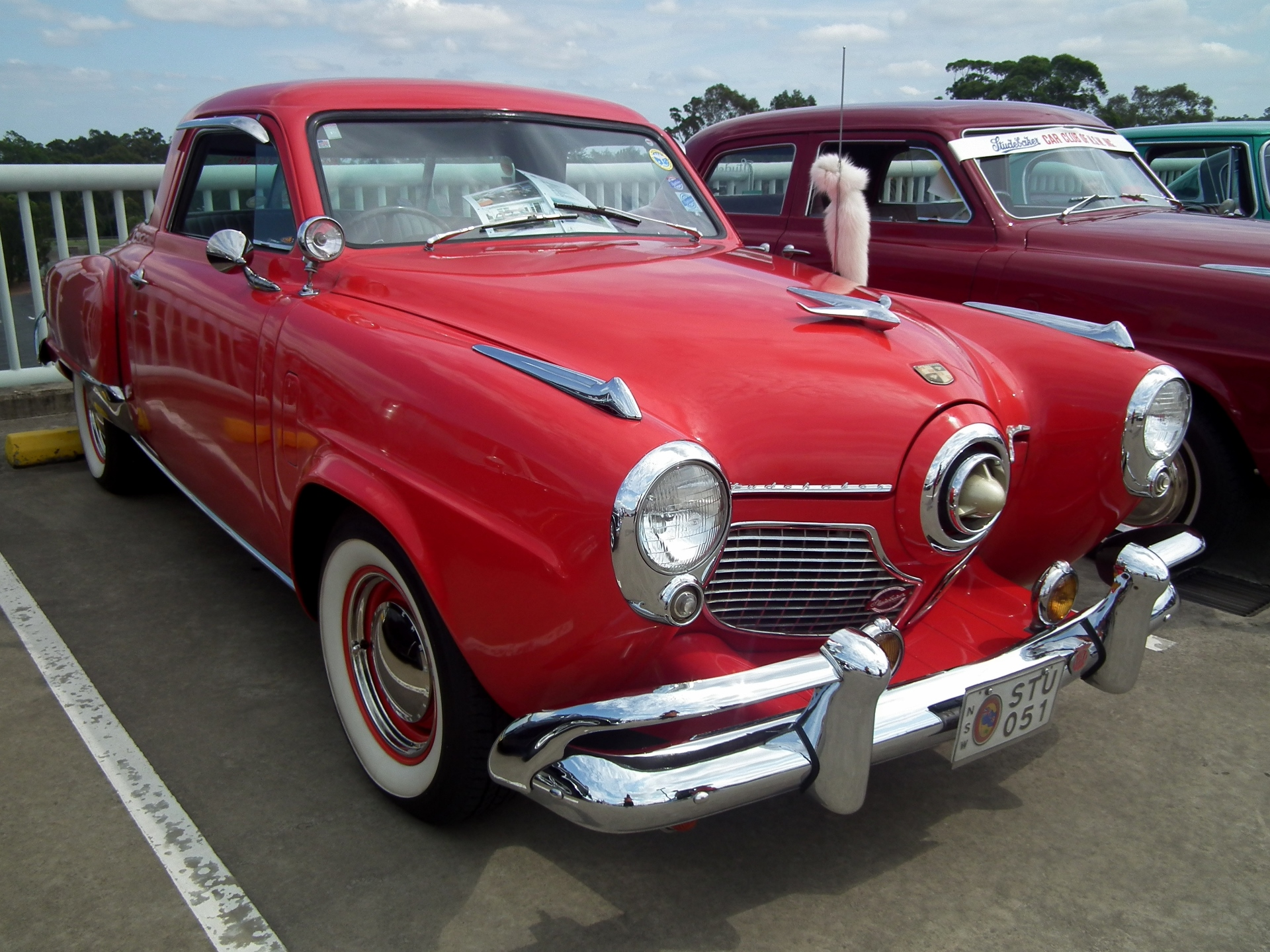 1951 Studebaker Champion Starlight coupe. Taken at the 2014 New South Wales All American Day, held at Castle Towers Shopping Centre, Castle Hill, Sydney.